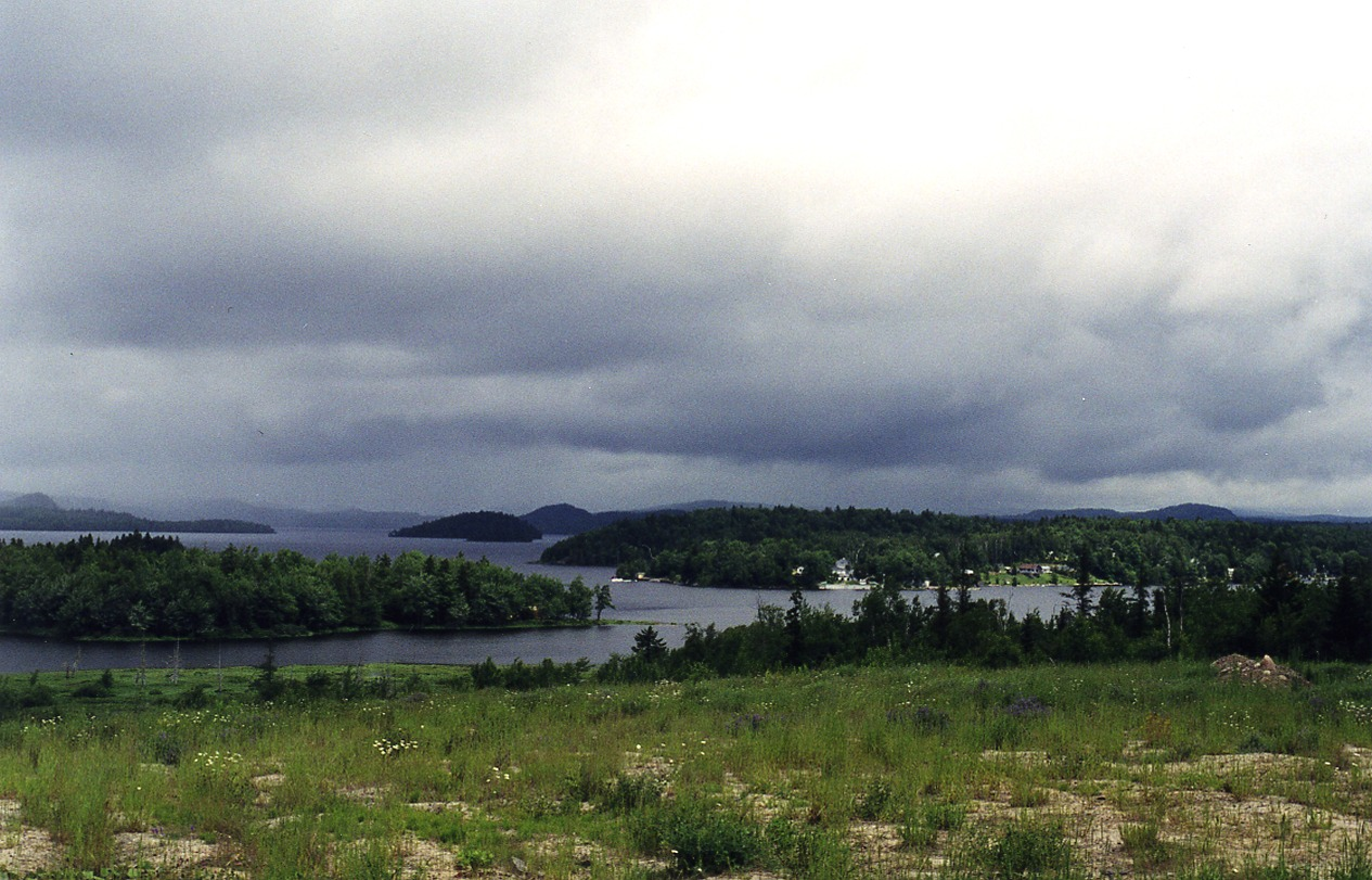 Photo of Lake Utopia taken 7/7/2002